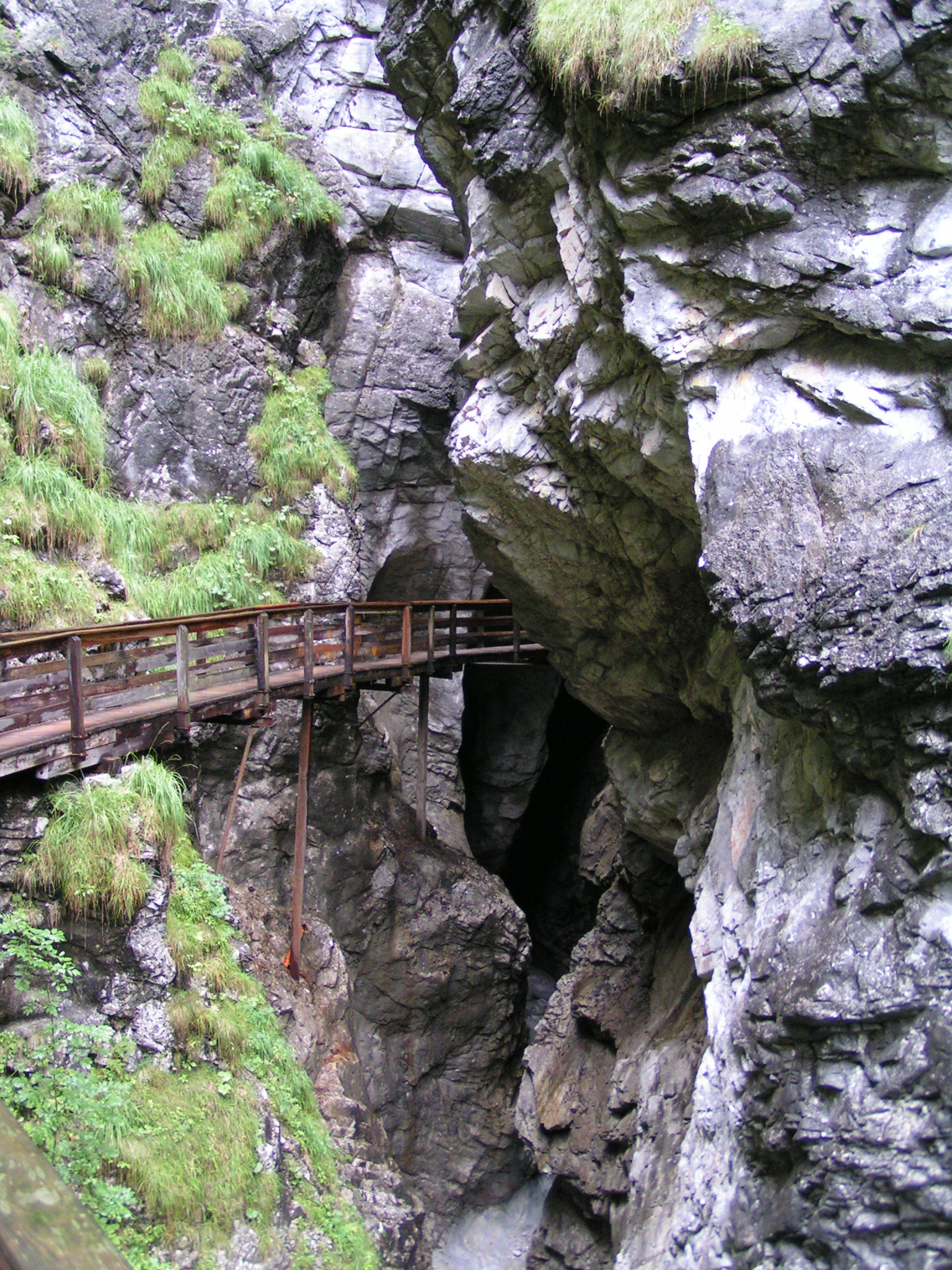 Vorderkaserklamm near Lofer in Austria This media shows the natural monument in Salzburg with the ID NDM00149.